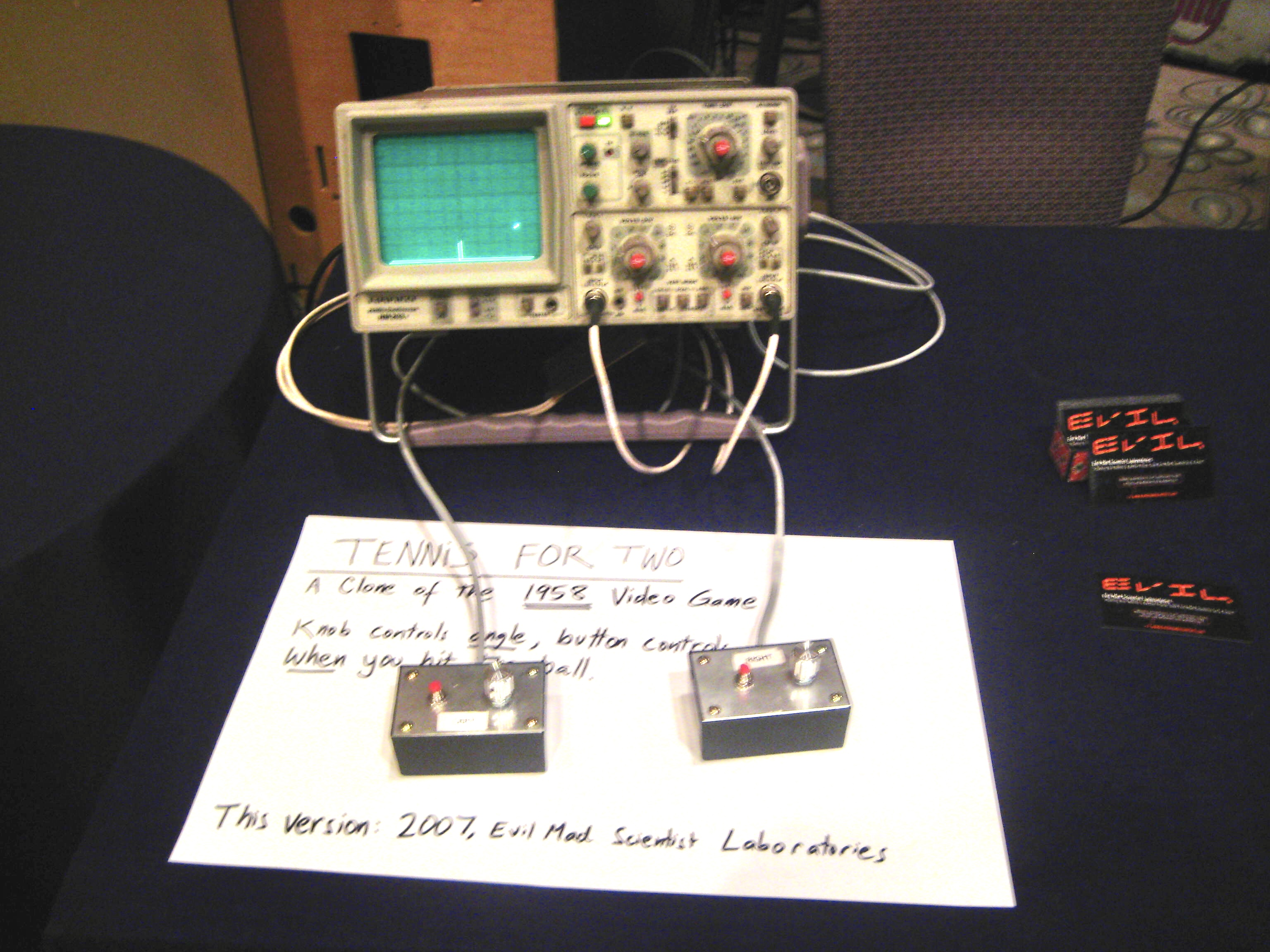 Picture of a Tennis for Two Machine at CAX 2010